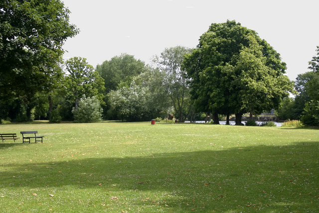 Rivermead Island. This is one of the few islands in the Thames to which there is public access. The trees in the farthest distance indicate the so-called Swan's Rest Island which was once an island in its own right but is now the eastern end of Rivermead Island.